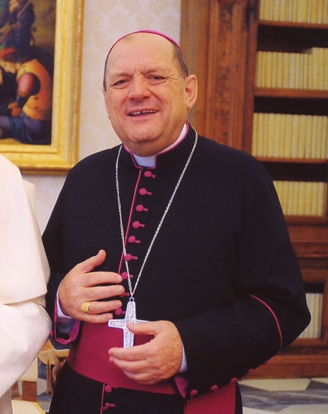 Picture of Dom Paulo de Conto